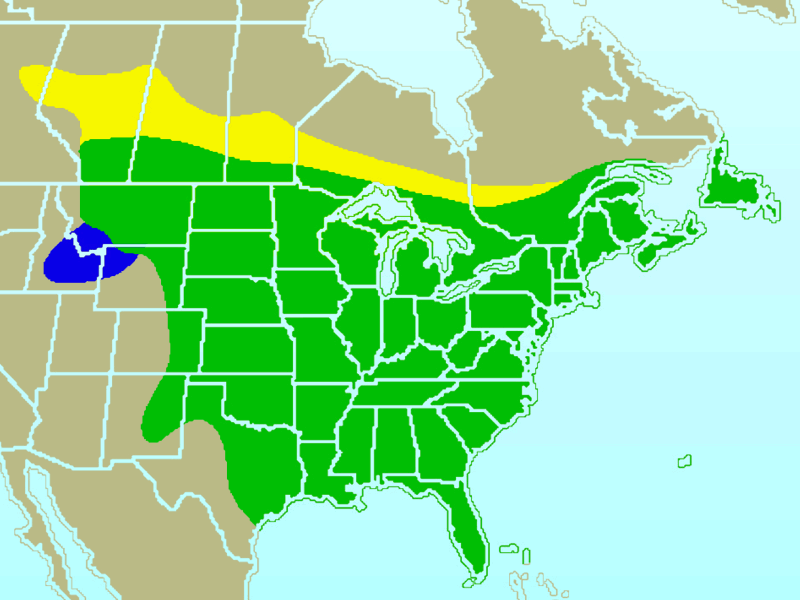 Approximate range/distribution map of the Blue Jay (Cyanocitta cristata). In keeping with WikiProject: Birds guidelines, yellow indicates the summer-only range, blue indicates the winter-only range, and green indicates the year-round range of the species.